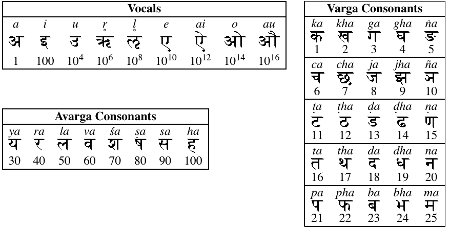 Tables of the Aryabhata Code